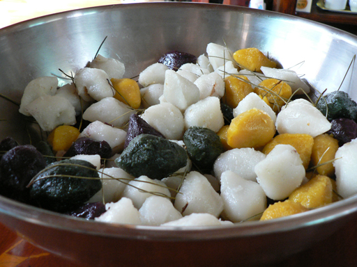 Songpyeon, Korean rice cake for Chuseok, mid-term festival